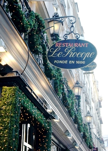 The Sign of the Café Procope founded in 1686 by Francesco Procopio dei Coltelli in Paris